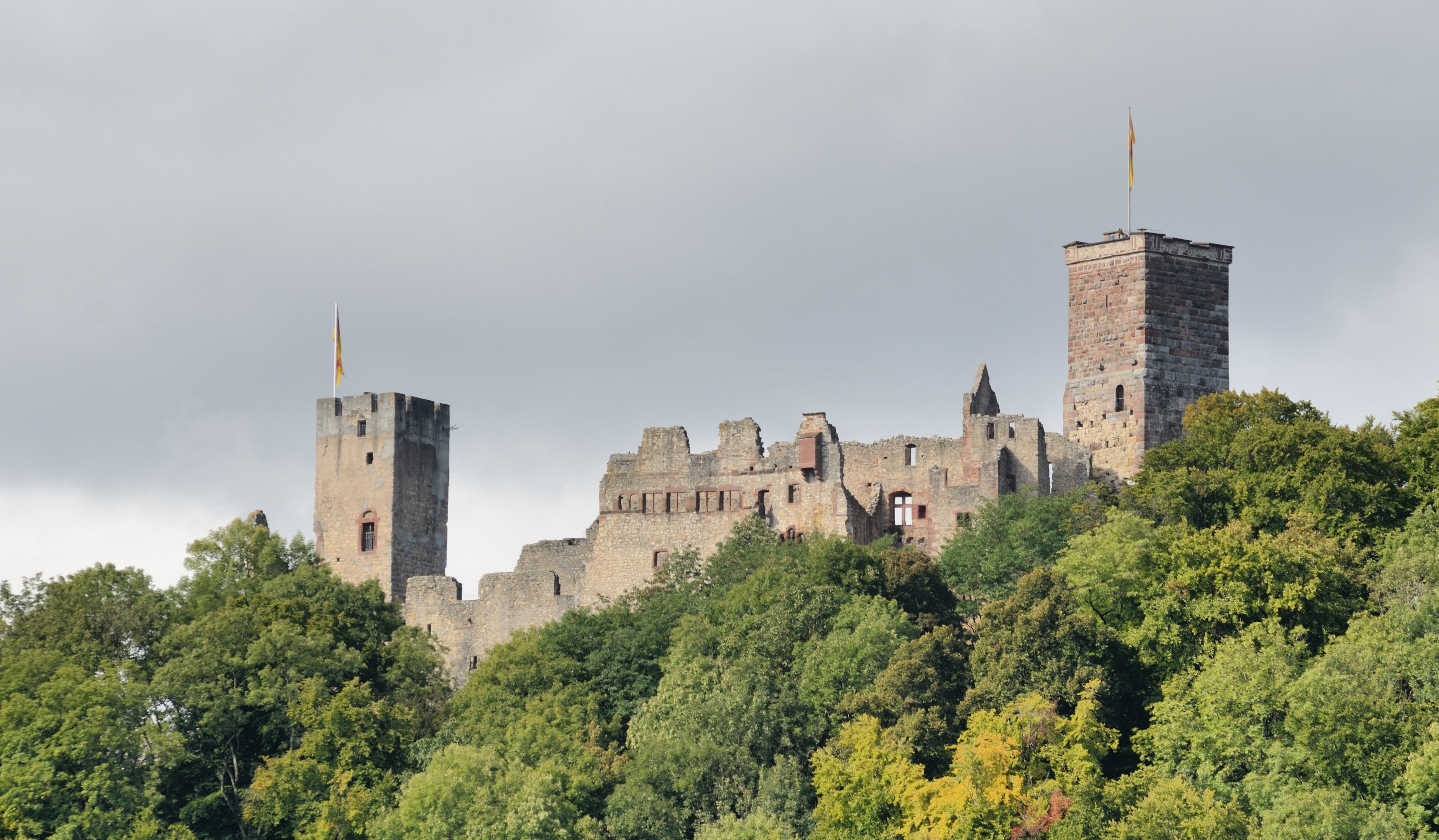 Lörrach: Rötteln Castle from east